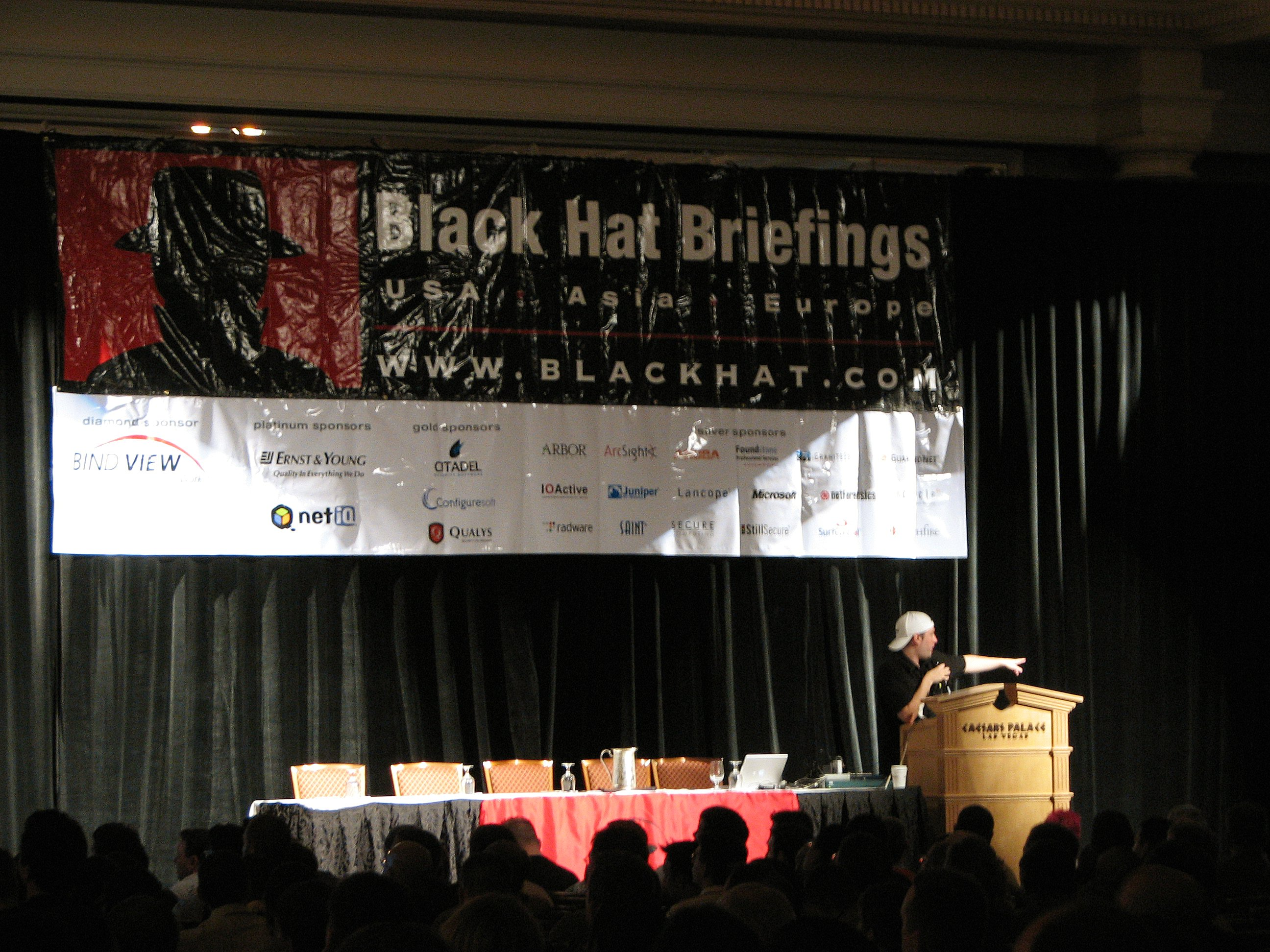 Michael Lynn speaking at Black Hat 2005 on Cisco IOS, vulnerabilities, (Las Vegas, NV) moderately blurry